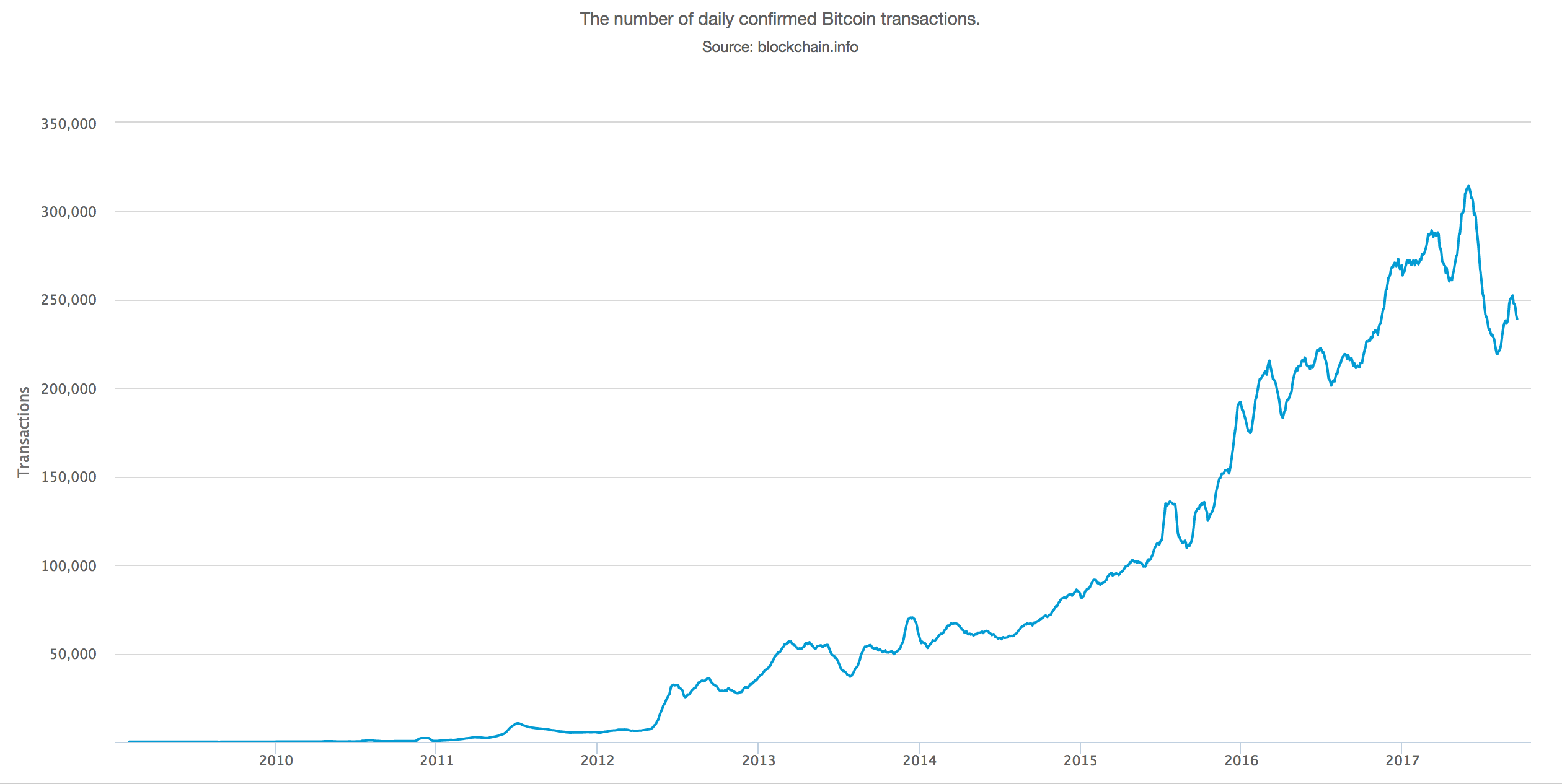 The number of daily confirmed Bitcoin transactions from January 2009 through September 2017